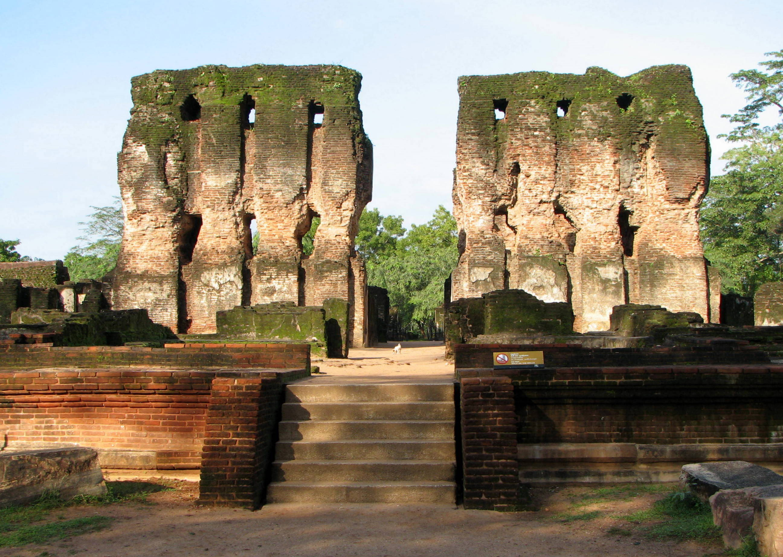 Royal Palace, Polonnawura, Sri Lanka